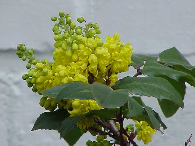 Species: Mahonia aquifolium Family: Berberidaceae Image No. 1